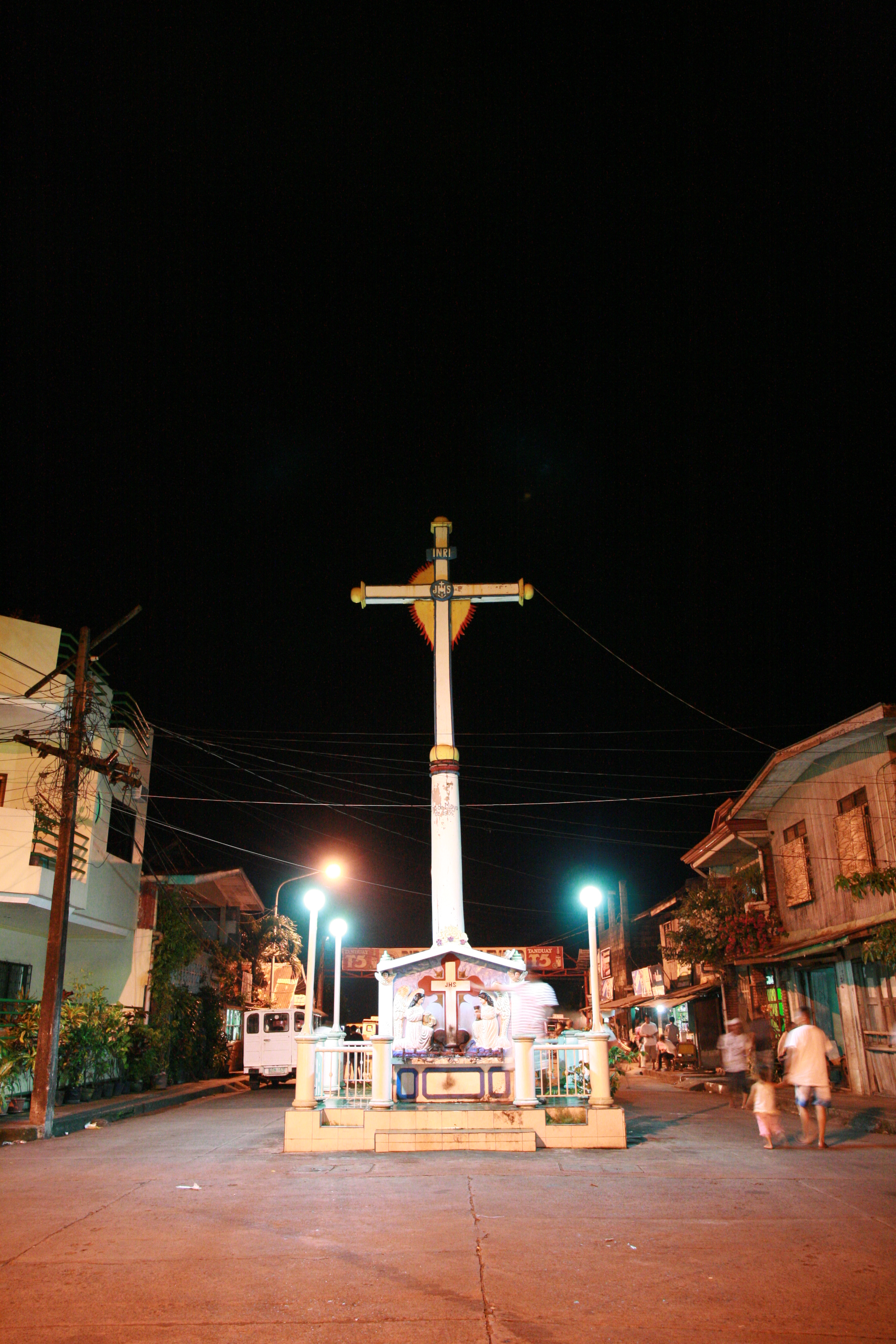 Santa Cruz Marker, also known as the Punta Corro, Dipolog City, Zamboanga del Norte, is the spot where migrating Boholanos from the Visayas landed and established settlement. A cross was erected by the settlers on May 3, 1905 as a thanksgiving altar to God for their safe journey. Roman Catholic mass were likewise celebrated on this area before the Spaniards established a Chapel 1.5 kilometers inward along the town center street now known as Rizal Avenue.